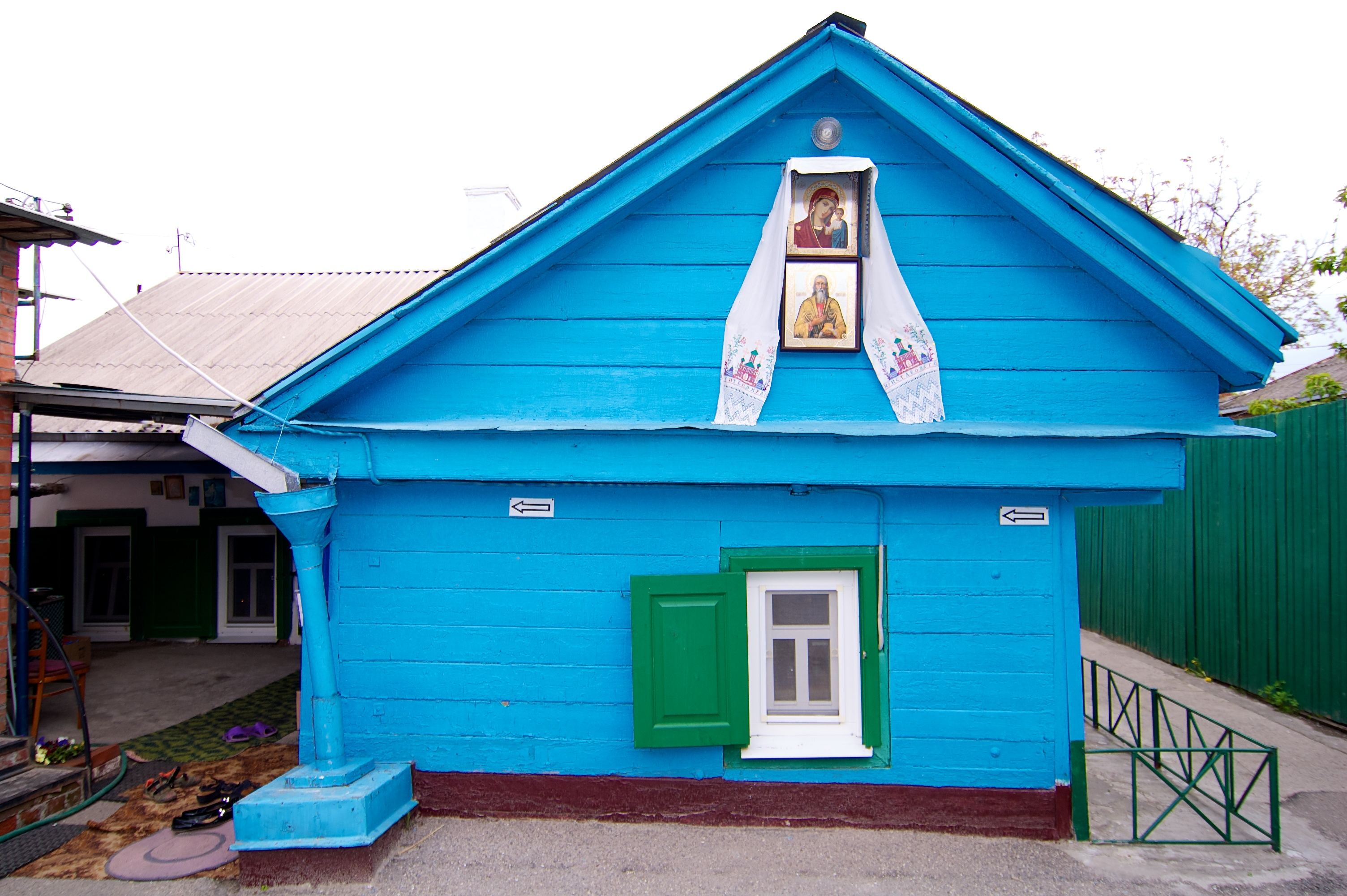 House (kelya) of Saint Pavel of Taganrog. Photographed by Alexander Mirgorodskiy for